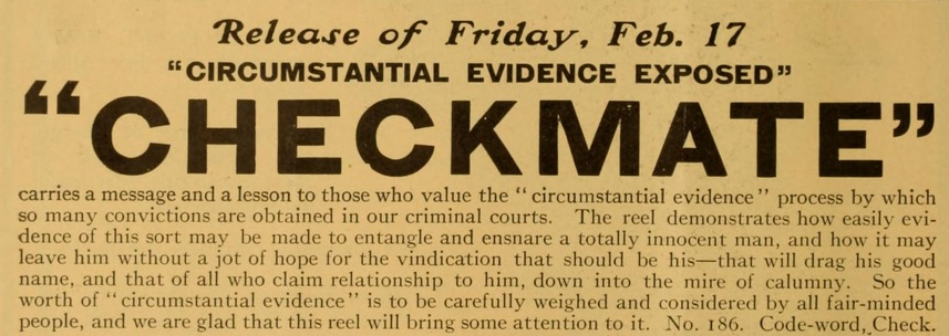 An advertisement for Checkmate by the Thanhouser Company. Released in 1911, the film was one to highlight the social problems of circumstantial evidence. The film was panned by critics who felt the story was improbable. Source: Moving Picture World 1911.